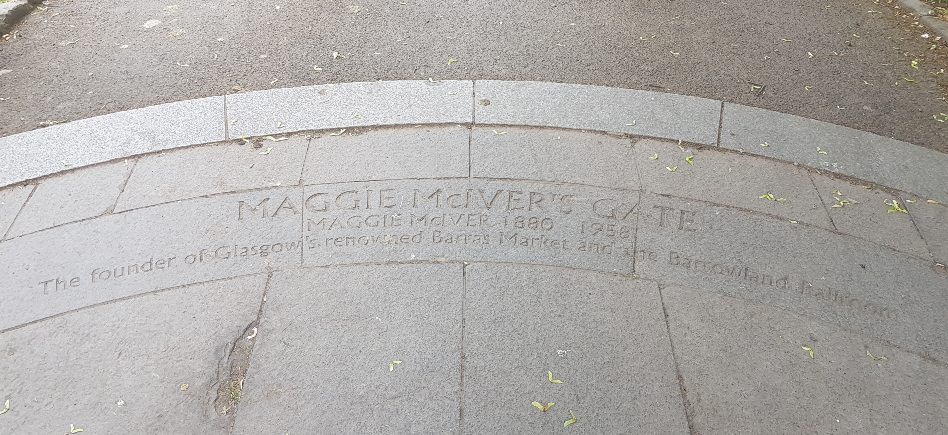 Entrance Gate to Glasgow Green, dedicated to Maggie McIver, founder of the Barras Market and the Barrowlands Ballroom